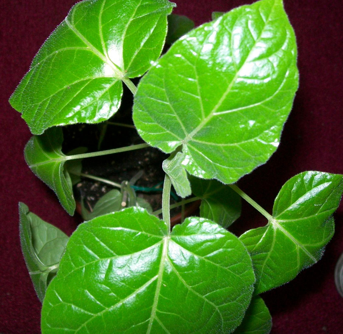 6 month old tamarillo seedlings, Chapel Hill, North Carolina